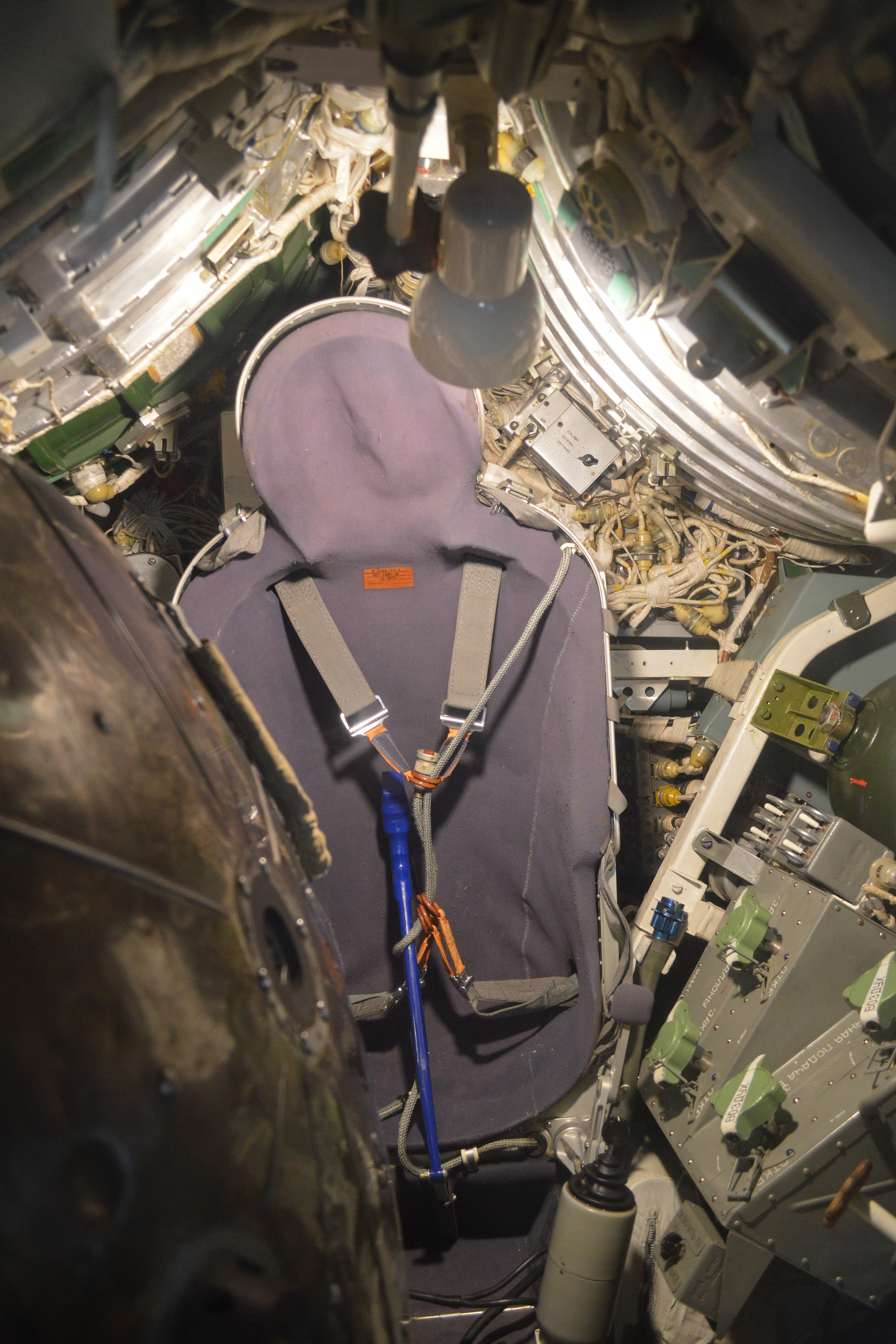 c/n 01602. On display at the Muzeum Wojska Polskiego (Polish Army Museum). Warsaw, Poland. 25-8-2013